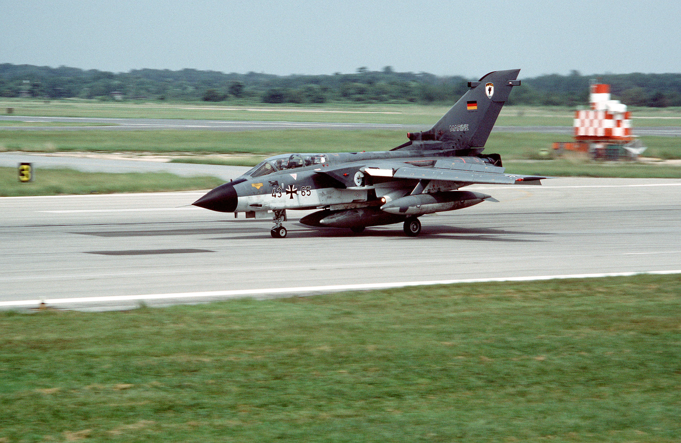 A Federal German Navy Panavia Tornado IDS aircraft (s/n 43+65) lands at Naval Air Station, Oceana, Virginia (USA), on 1 August 1989. The Tornado belonged to Marinefliegergeschwader 1 (MFG 1) (Naval Fighter Wing 1) at Jagel Air Base, Schleswig-Holstein (Germany). After the end of the cold war MFG 1 was disbanded in 1993. Note the thrust reversers.